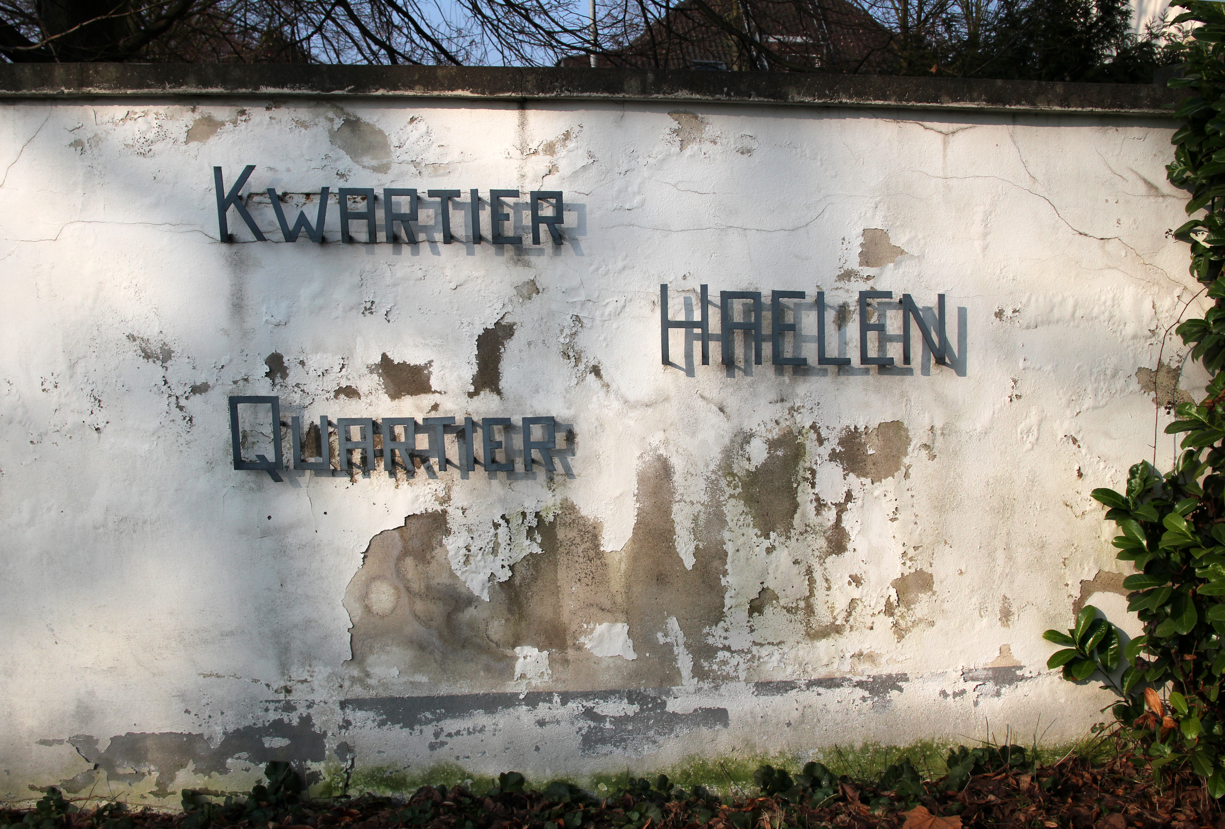 Former belgian military base Haelen, Colognr